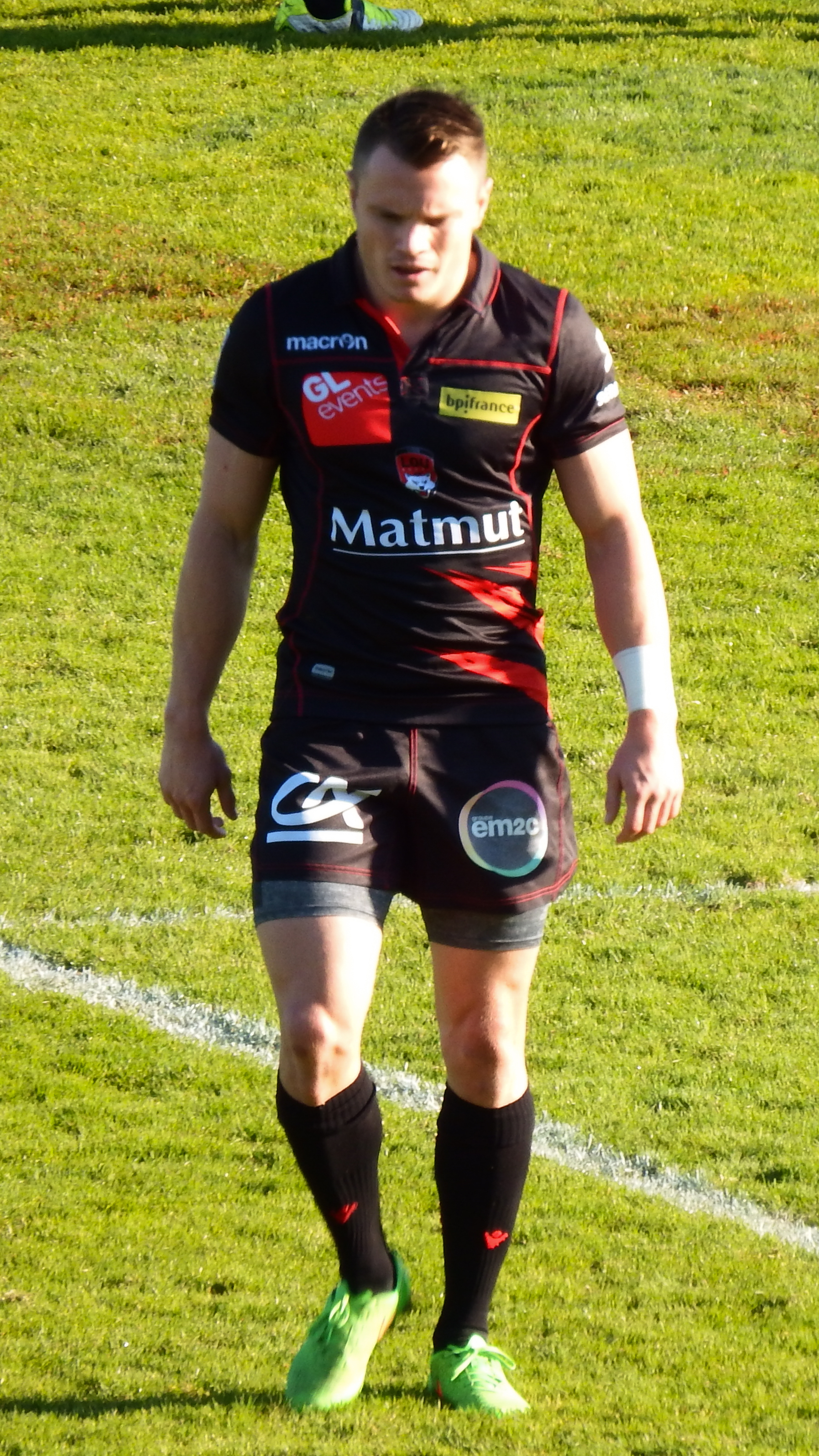 Q20724161 — 13 December 2015, stade Maurice-Boyau. Match between: US Dax — Lyon OU